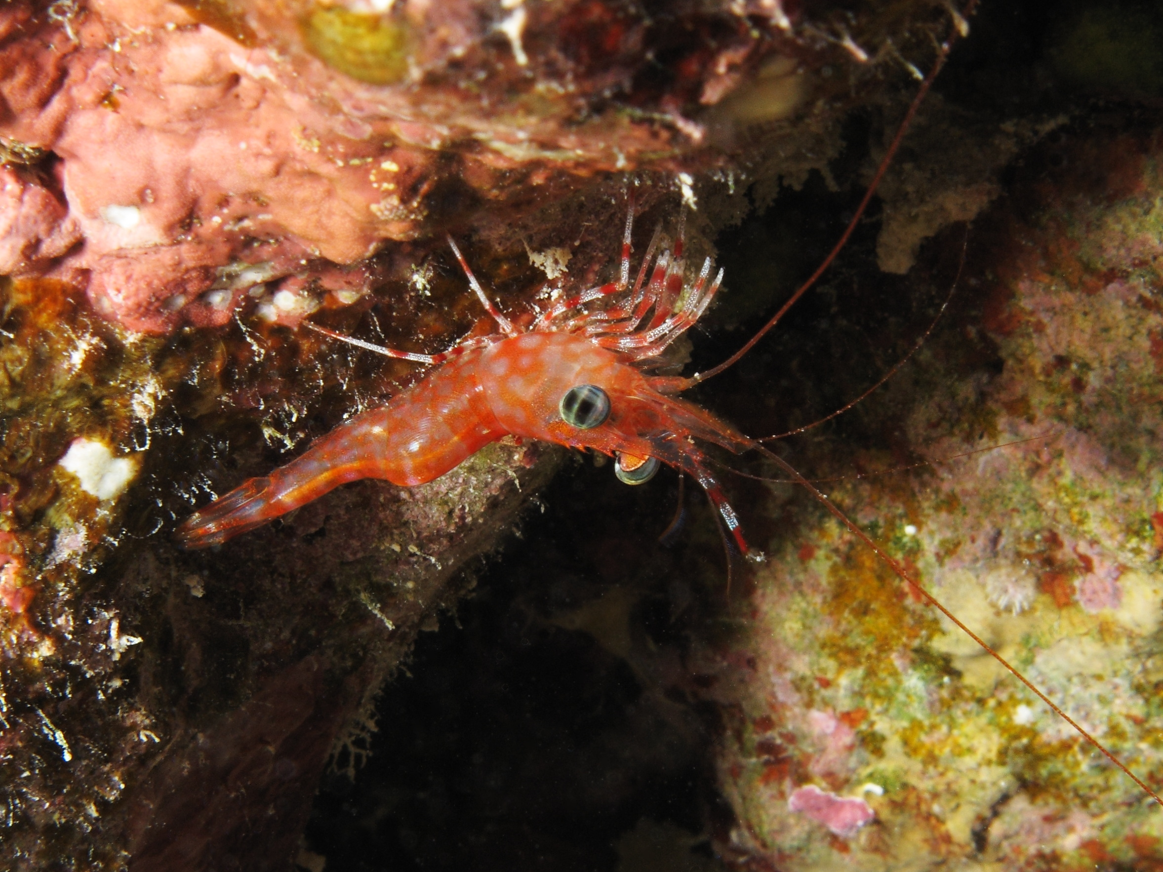 Female green-eyed dancing shrimp (Cinetorhynchus reticulates) at Mikauwa Island (Red Sea, Egypt)